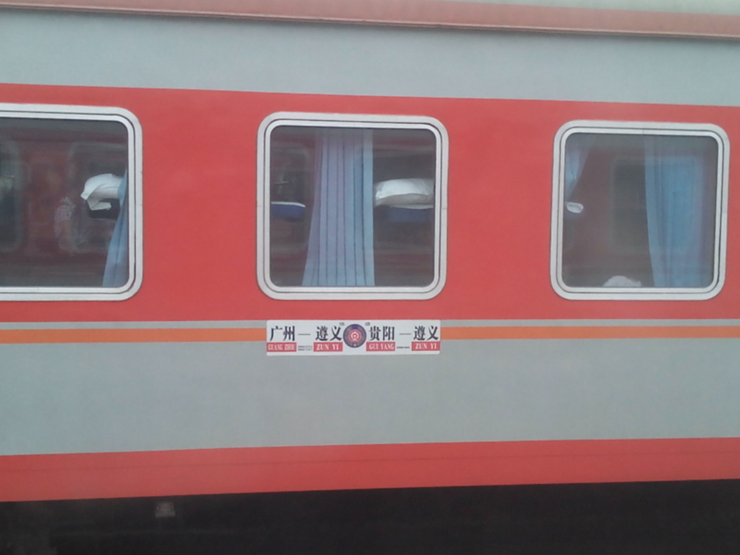 K841-842-843-844 Guangzhou-Zunyi-Guiyang train